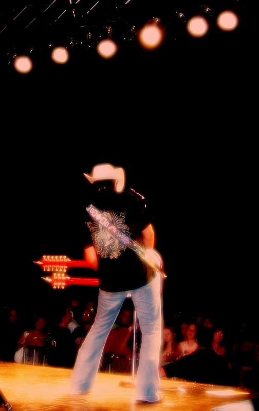 Photograph by Larry Marshall. Source: Provided by Larry Marshall London Balloon Festival, August 2006. Gordie Johnson of Grady performs on the Main Stage.